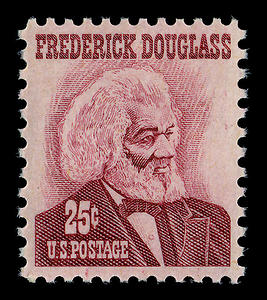 US 25-cent postage stamp of 1967, part of the Prominent Americans series, depicting Frederick Douglass